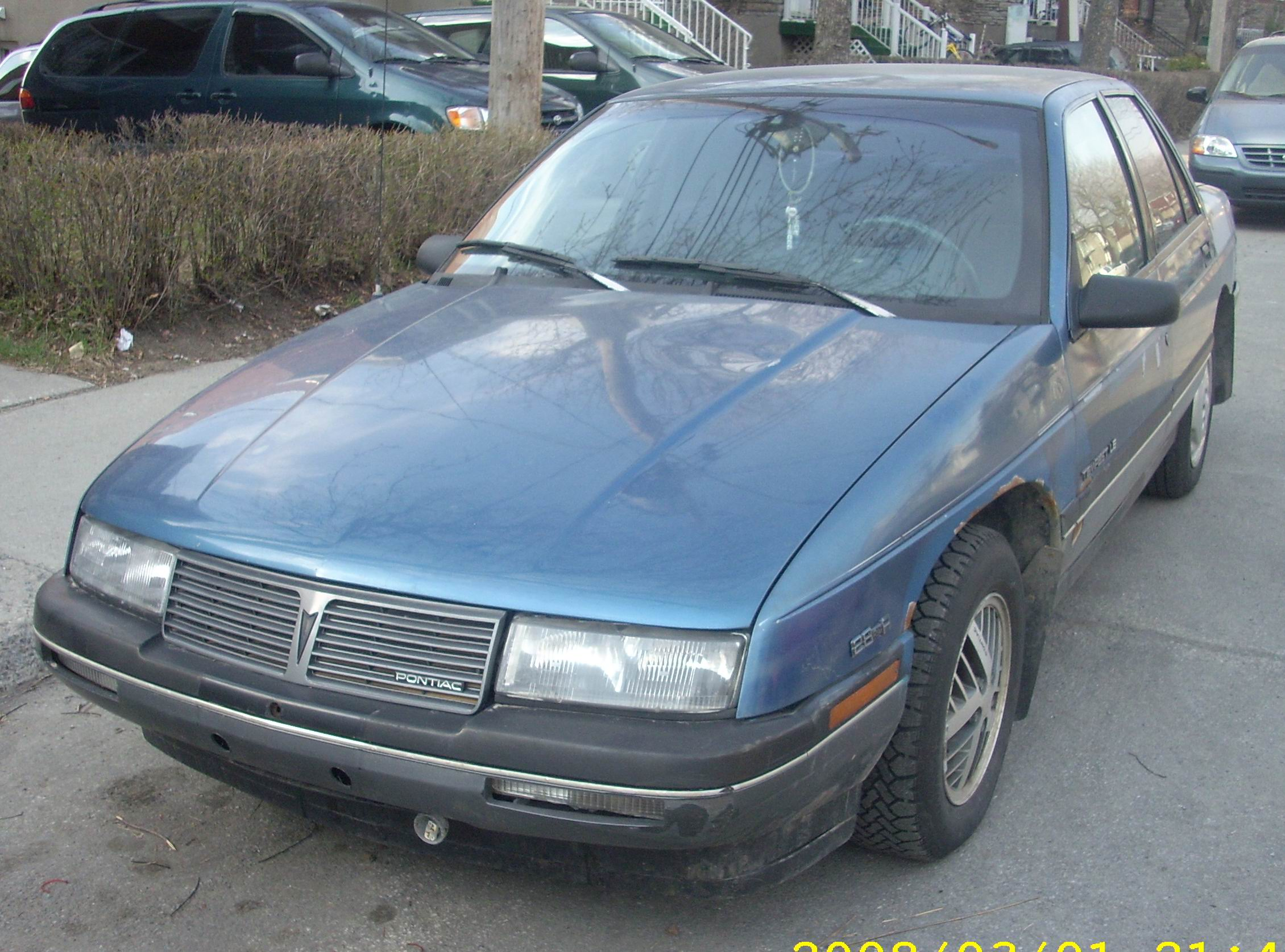 Pontiac Tempest photographed in Montreal, Quebec, Canada.